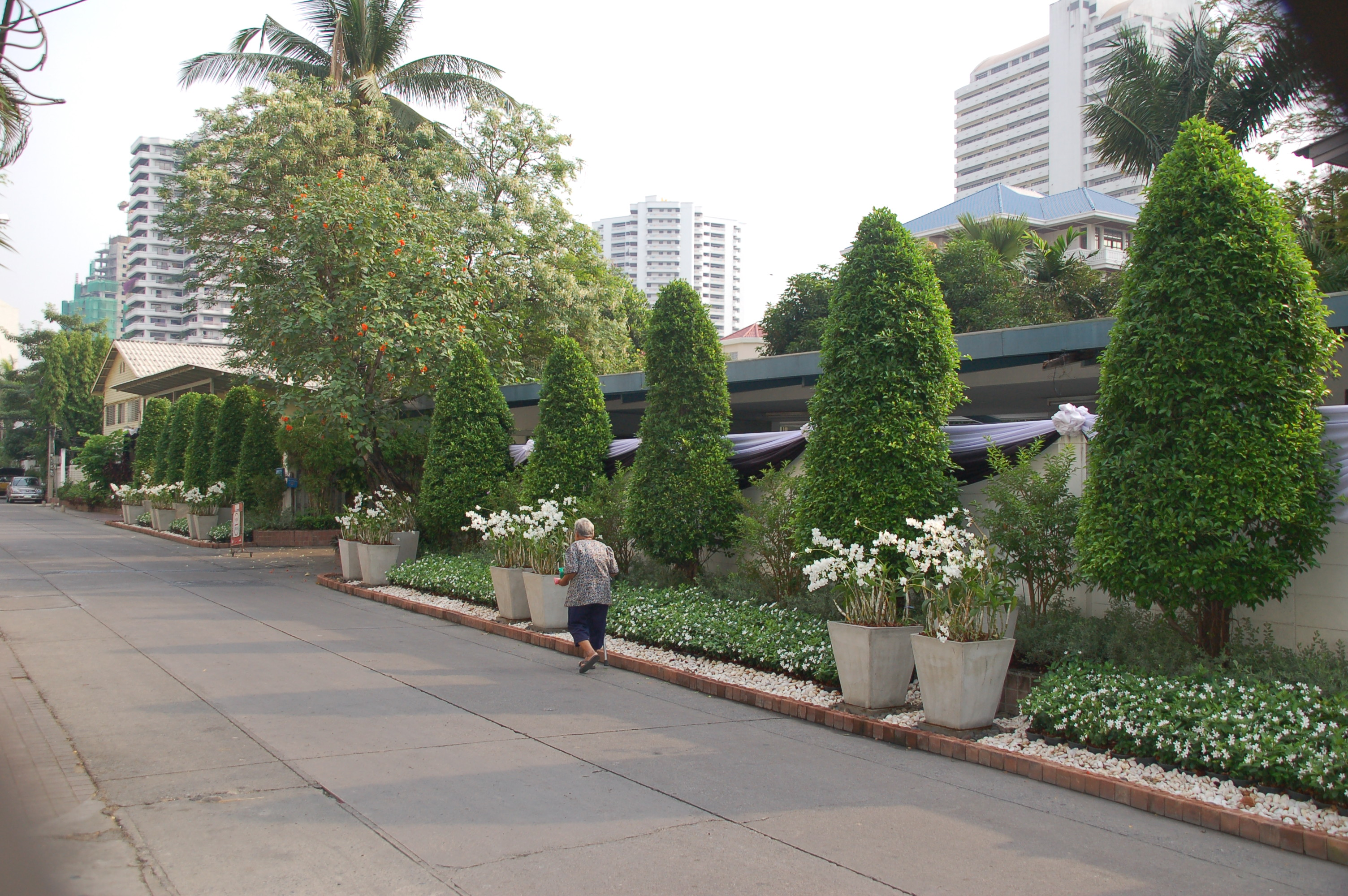 Front gate of Le Dix Palace, royal residence of HRH princess Galyani Vadhana since 1980. The palace is sitauted at 10 Soi Saengmookda, Sikhumvit rd., Bangkok, Thailand